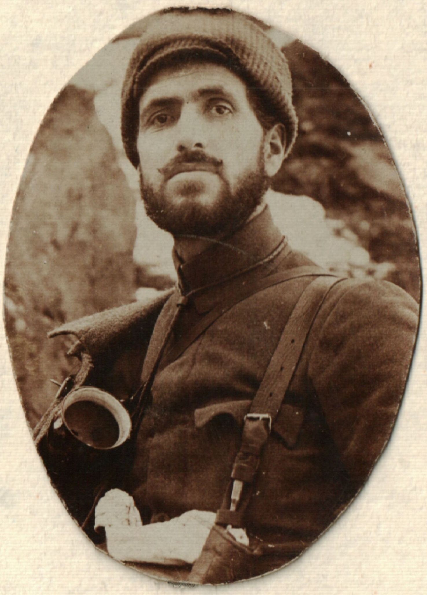 Pancho Mihaylov